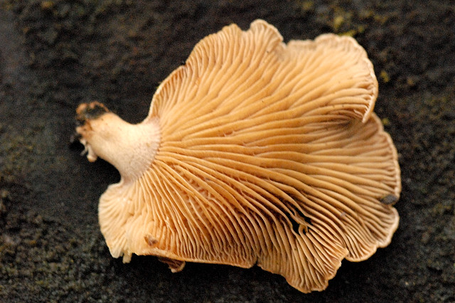 Panellus stipticus from Commanster, Belgium. The determination of the species shown in this picture has been verified.